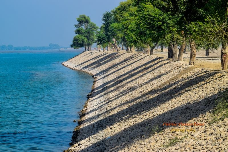 Kot Addu City Morning View 6:45am Sunday